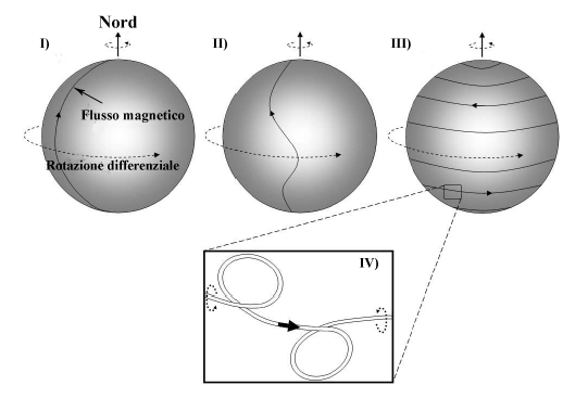 Italian translation of Image:Twistedflux.png